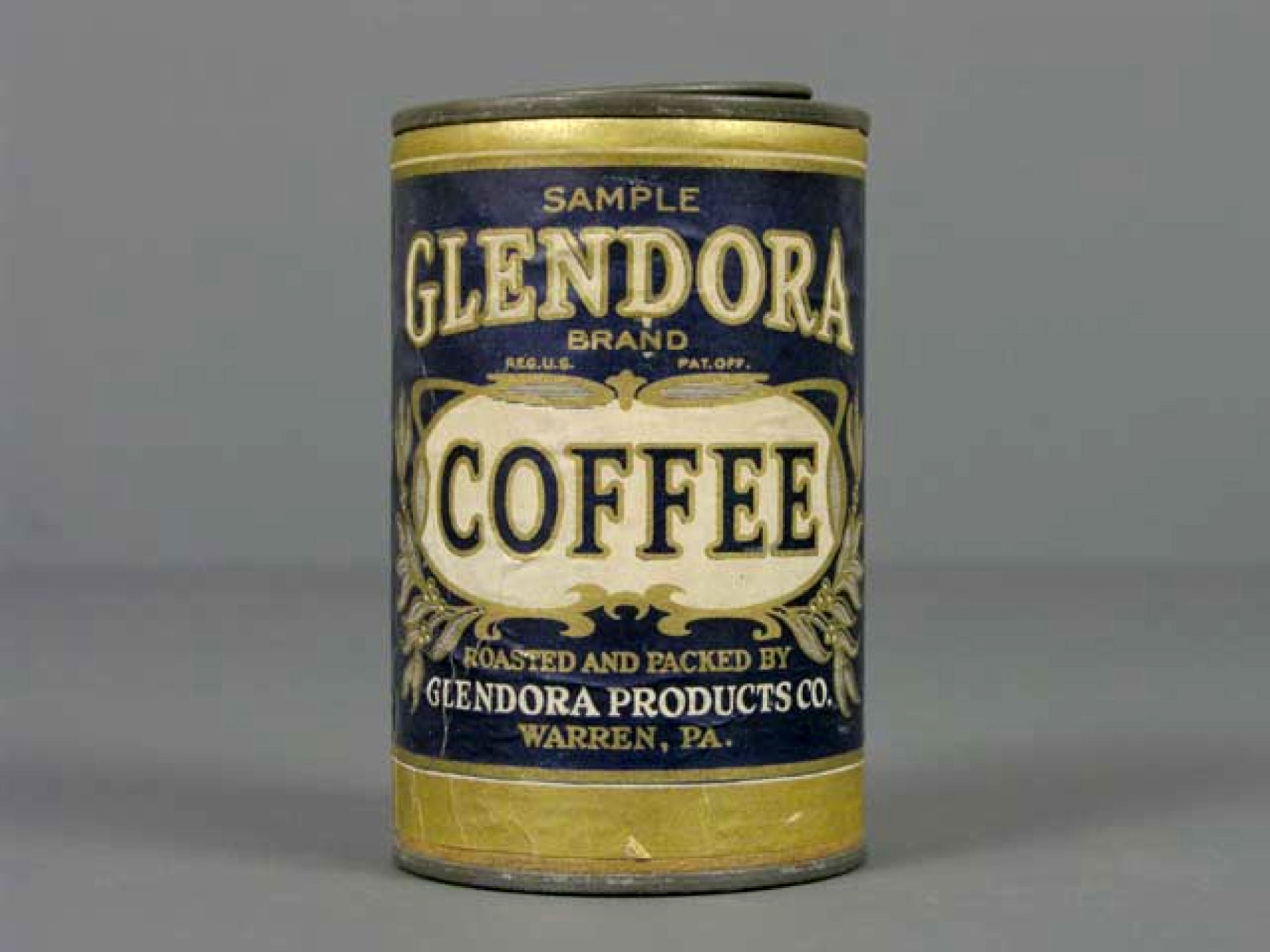 Metal can for Glendora coffee from first half of 20th century.